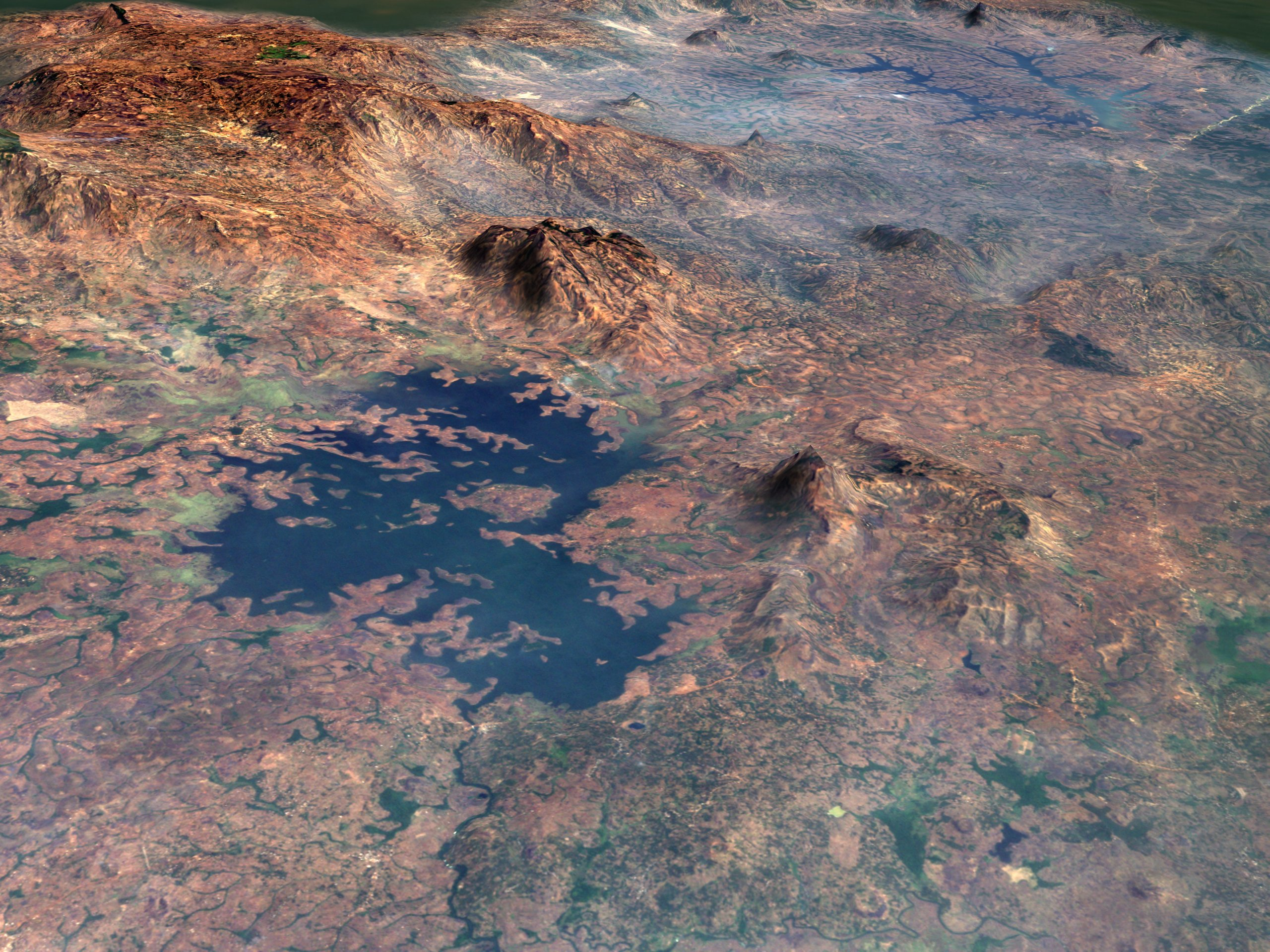 Bamenjing Reservoir, Cameroon, Africa on 2-5-2001 taken by Landsat-7